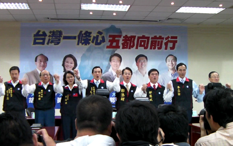 In Republic of China municipal elections, 2010. Kuomintang's five Direct-controlled Municipality Mayor Candidate and Chairman of the Kuomintang. Left-to-right: Secretary-General of the Kuomintang King Pu-tsung, Jason Hu, Huang Zhao-shun, Chairman of the Kuomintang Ma Ying-jeou, Guo Tian-cai, Hau Lung-pin , Eric Liluan Chu.